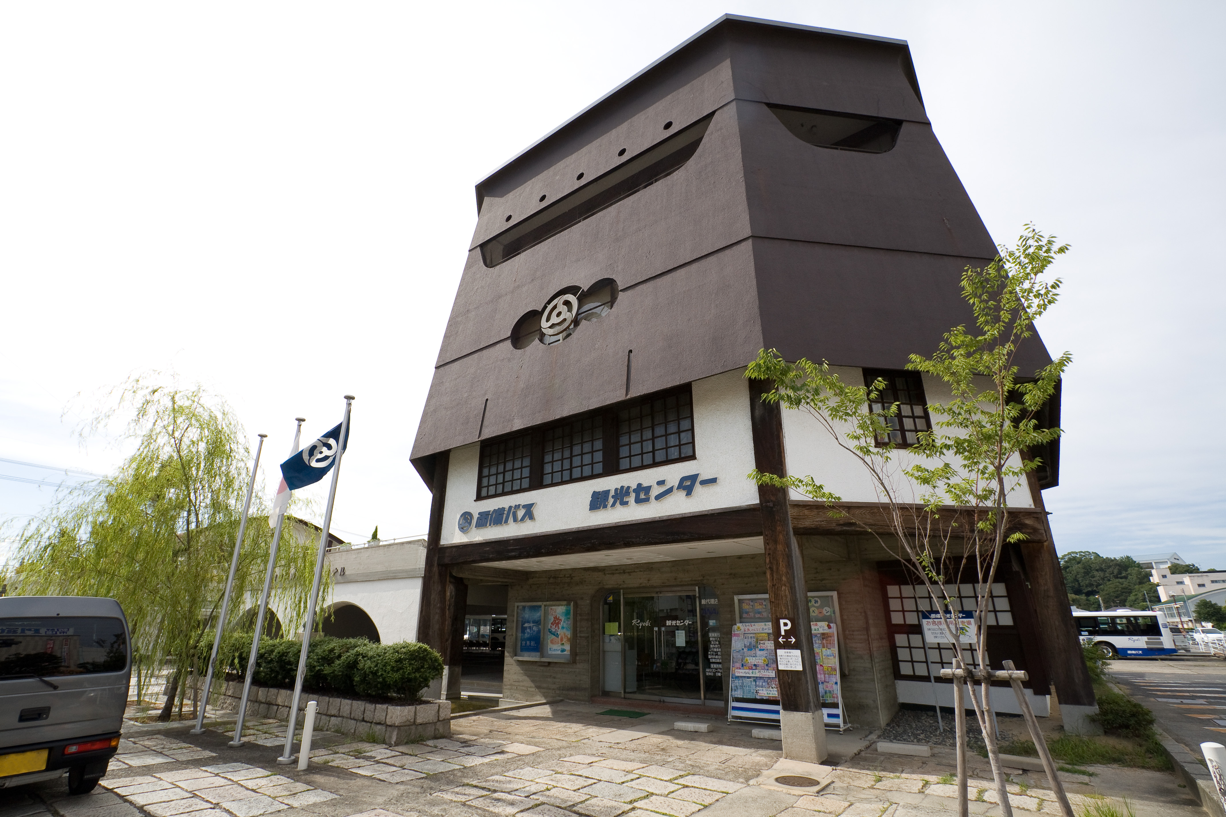 Saidaiji Bus Center